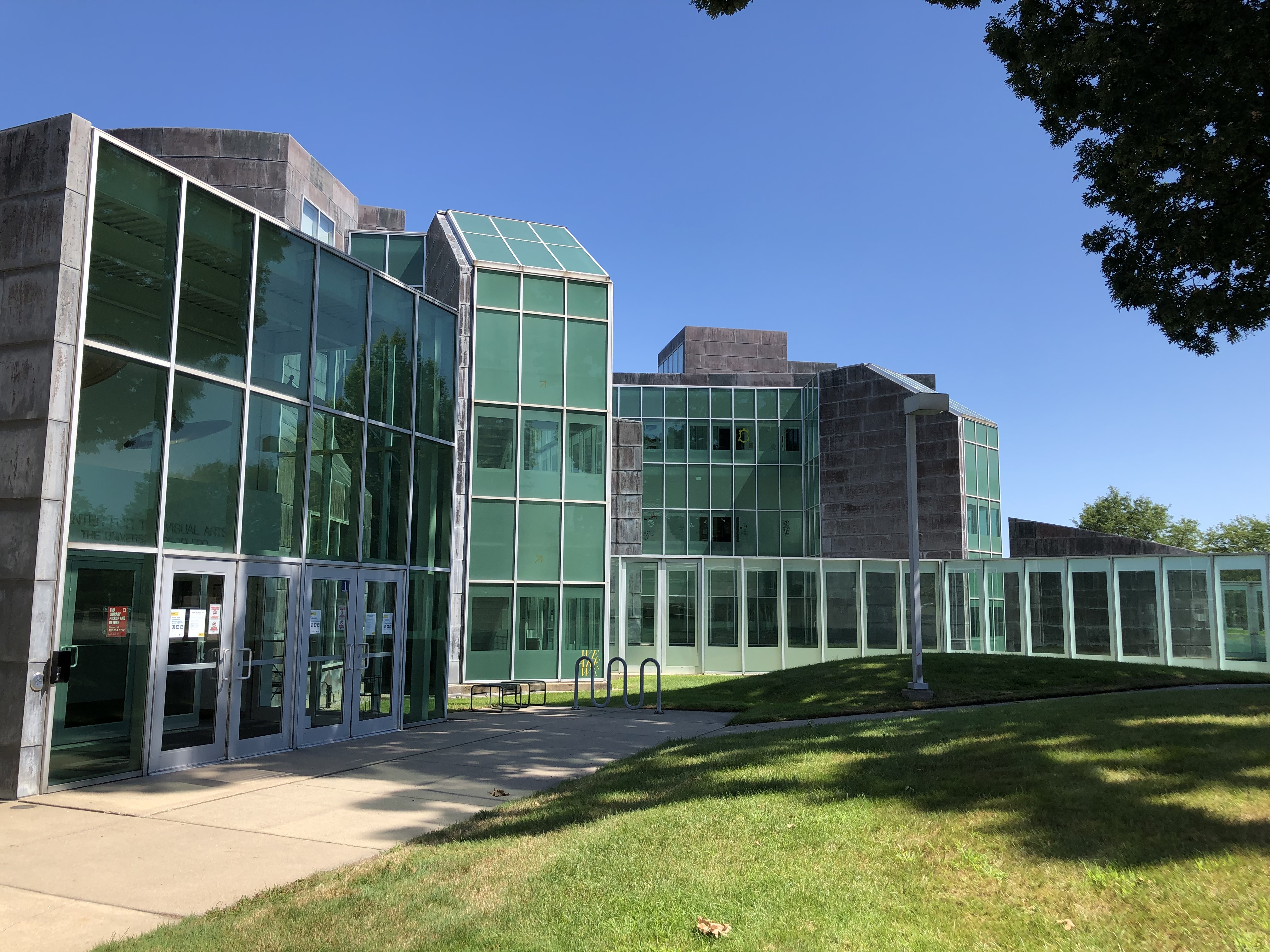 University of Toledo Center for the Visual Arts at 620 Art Museum Drive in Toledo, Ohio. It is on the same campus as the Toledo Museum of Art.